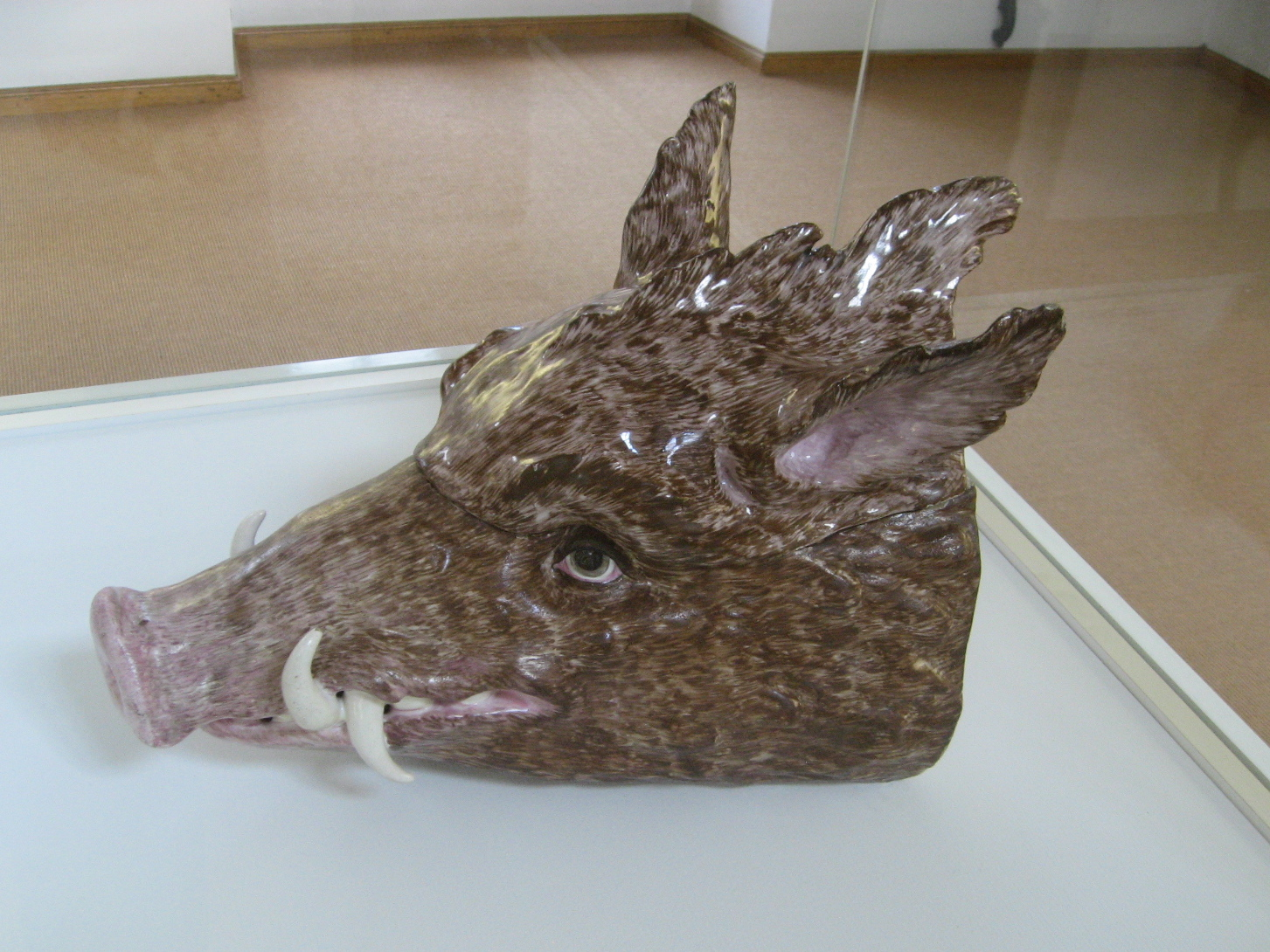 Porcelain by Paul Hannong, in the Musée des arts décoratifs de Strasbourg located on the ground-floor of Palais Rohan, Strasbourg.